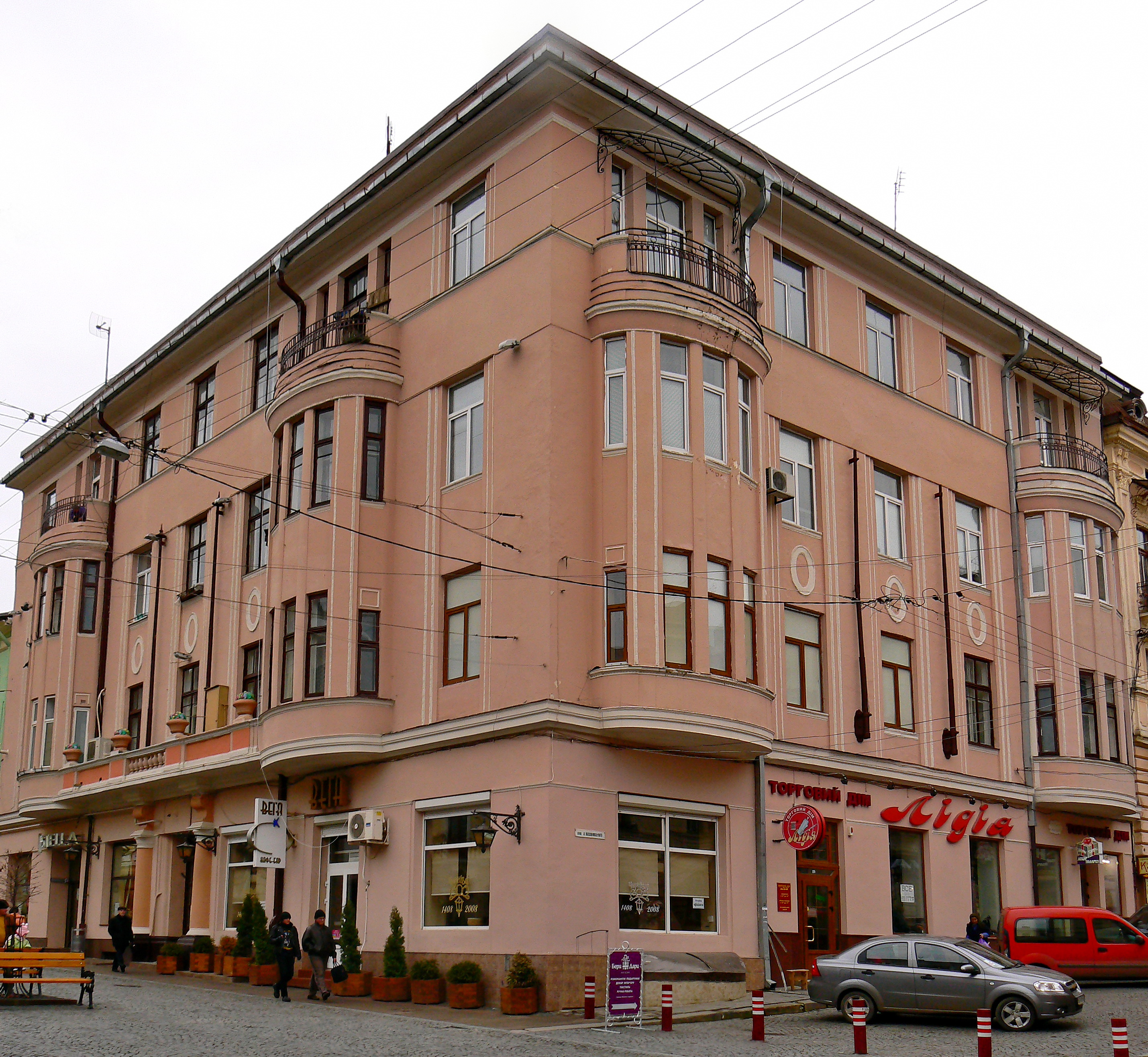 Кобилянської, 18